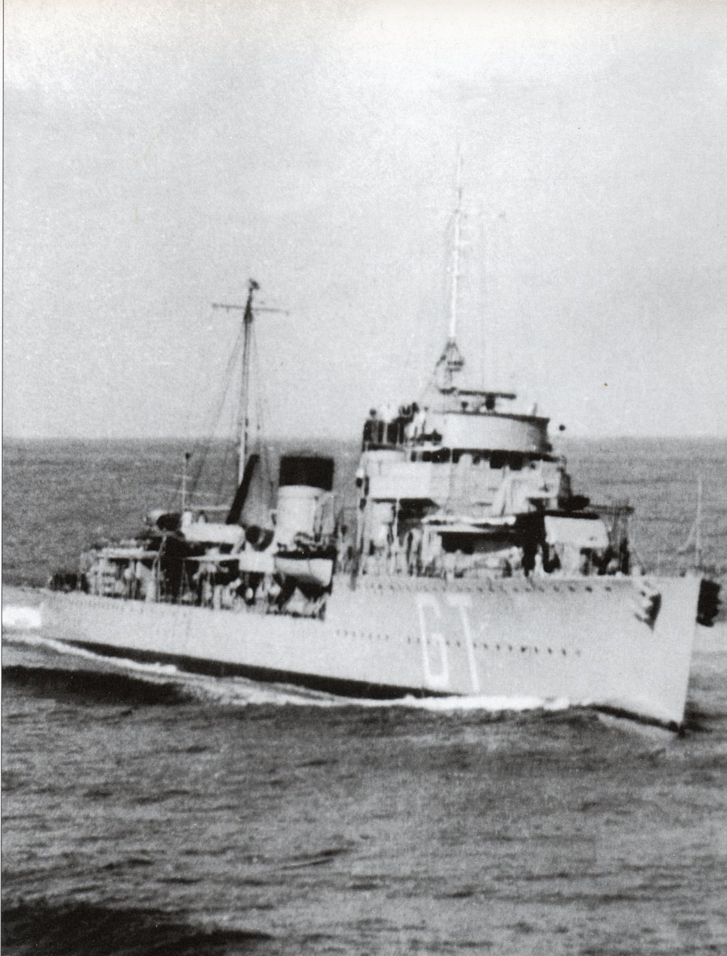 Dutch admiralenclass destroyer Van Ghent at open sea maken a left turn.